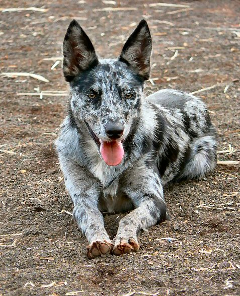 Coolibah coolie